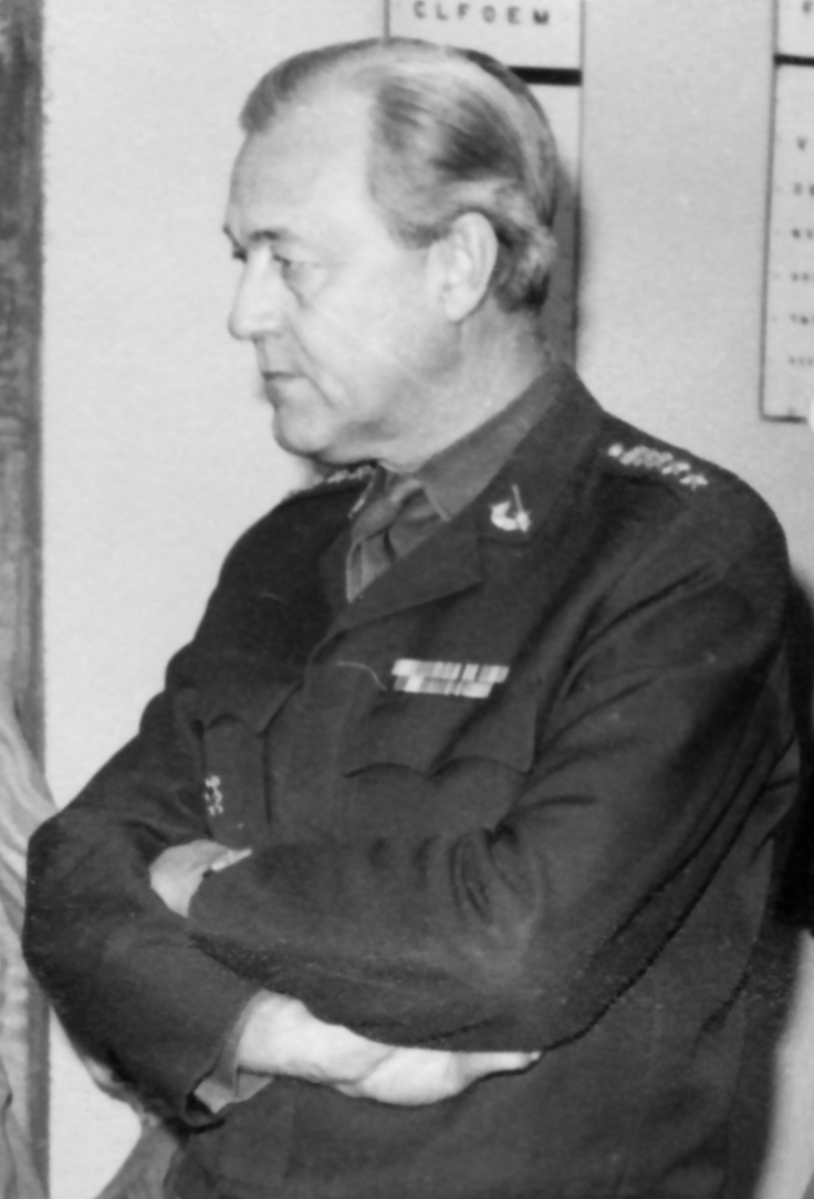 Regiment Museum in 1978. Fanjunkare Nils Jannerstad is thanked on his last working day on 31 March. From the left. Chief of the Barracks Company, Captain Bengt-Erik Murray, Nils Jannerstad, regimental commander of P 10/Fo 43, Colonel 1st Class Nils Stenqvist and Chief of Staff, Lieutenant Colonel Nils-Henrik Moberg. The museum had largely been built up by Nils Jannerstad, so after retirement he will continue to work as director of the museum.